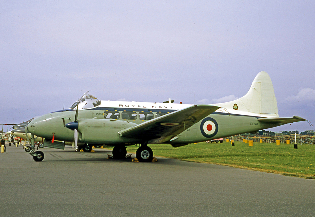 De Havilland DH.104 Sea Devon C.20 XJ348 of 781 Naval Air Squadron Royal Navy at RNAS Lee-on-Solent in 1969